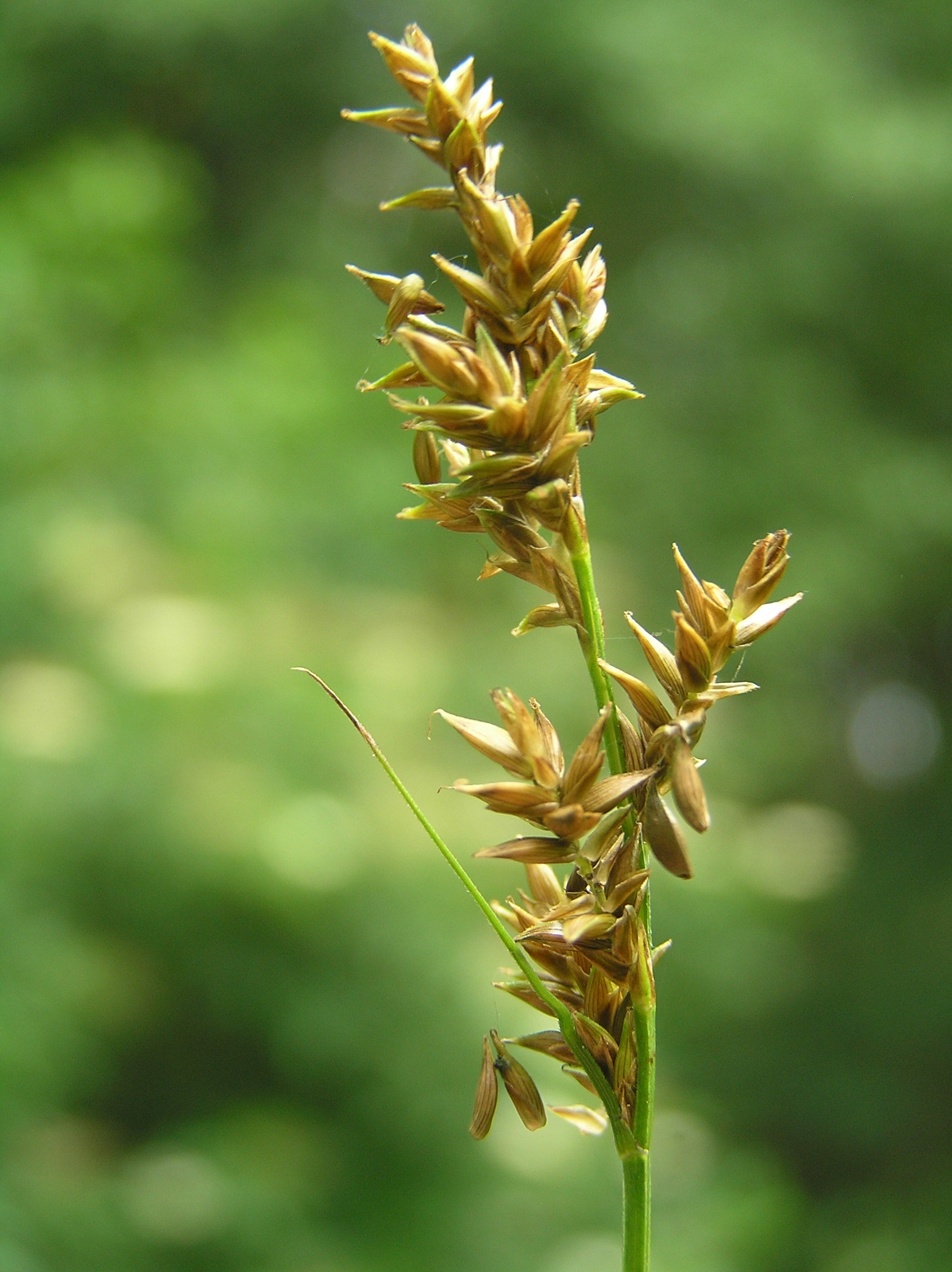 Carex elongata, near the pond Malý Karlov, Eastern Bohemia, Czech Republic